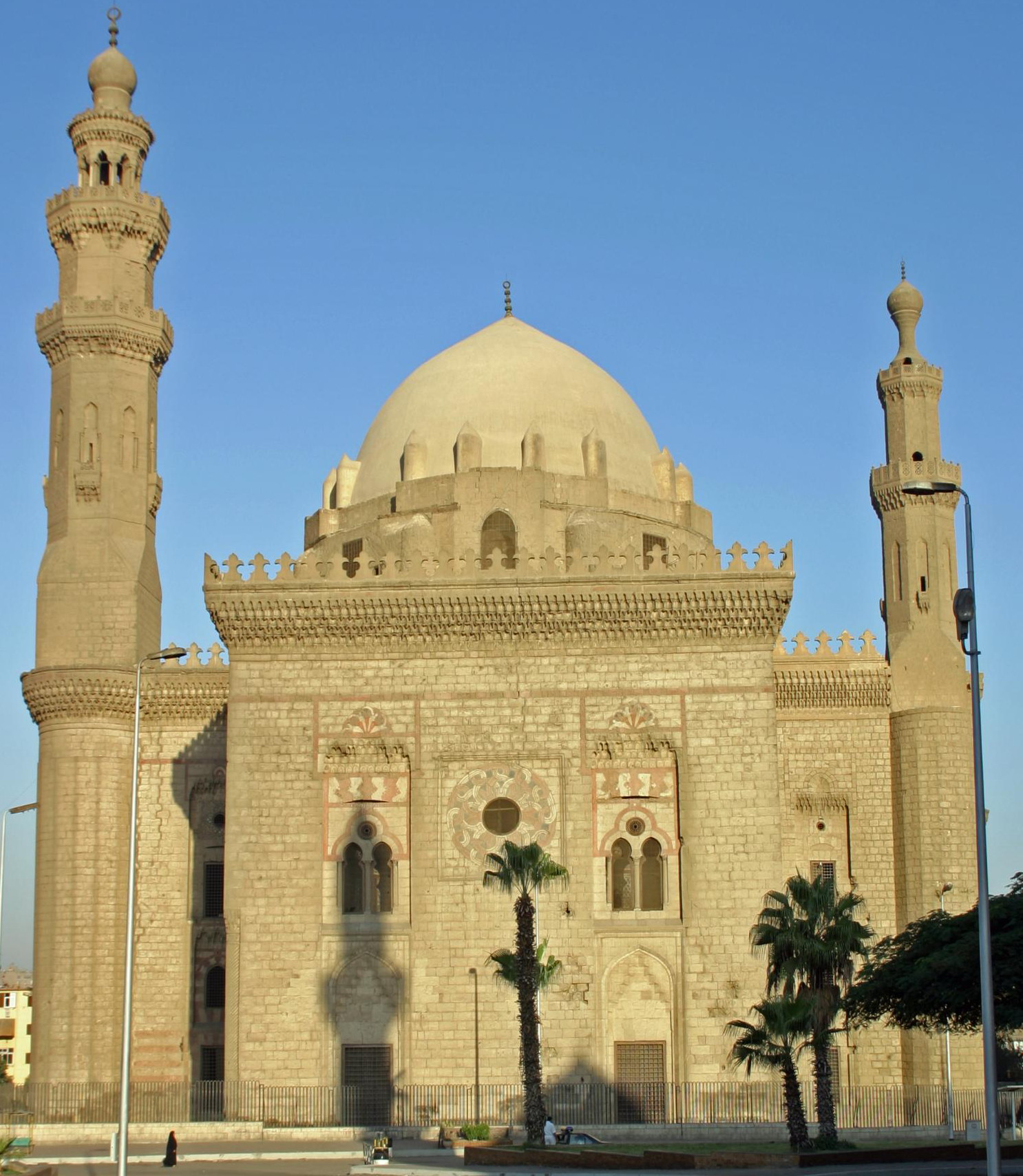 Hassan Mosque, Cairo, Egypt